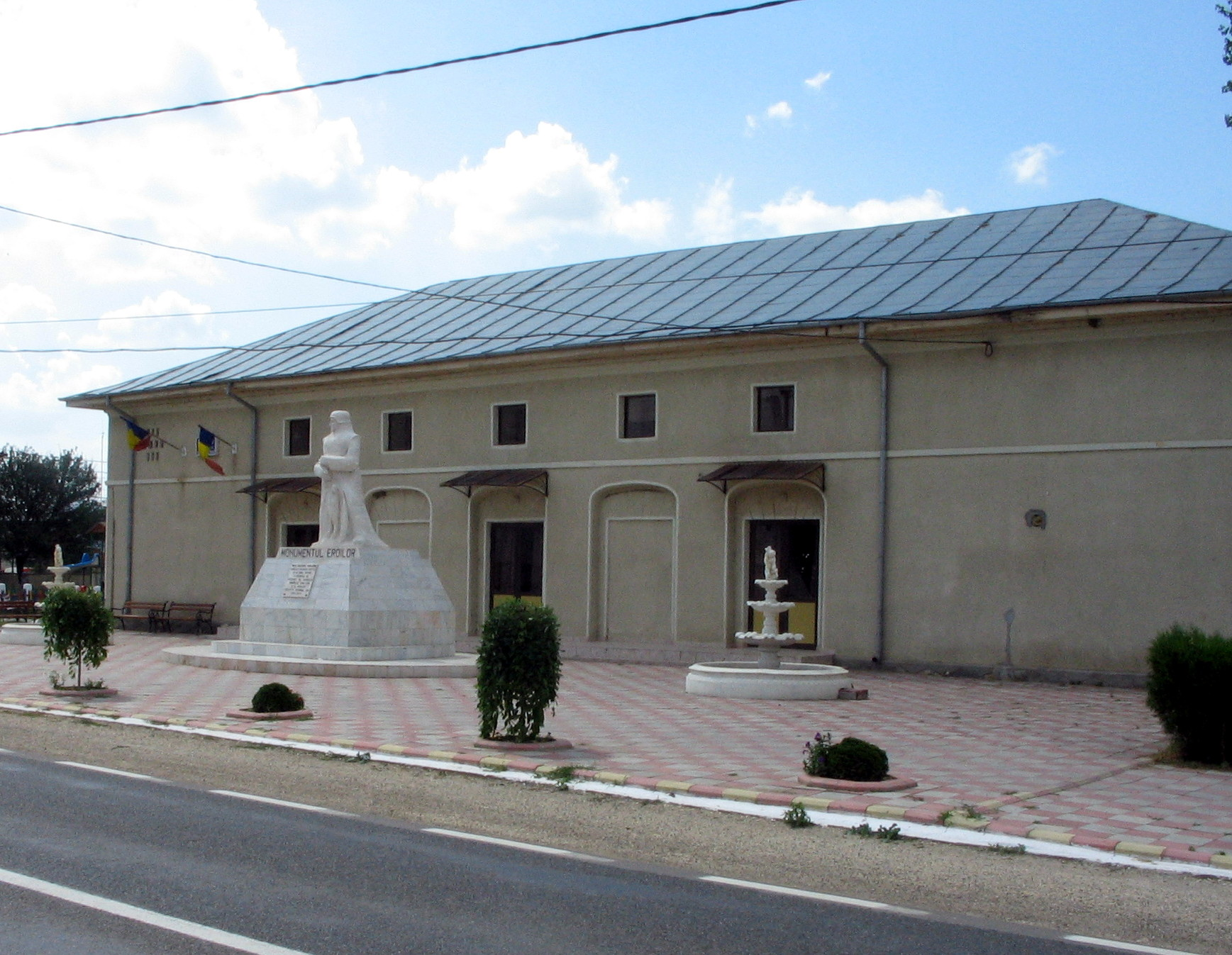 Însurăţei, Brăila, Romania town hall